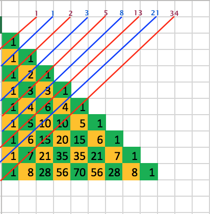 The sum of each diagonal of this Pascal's triangle form the Fibonacci sequence.